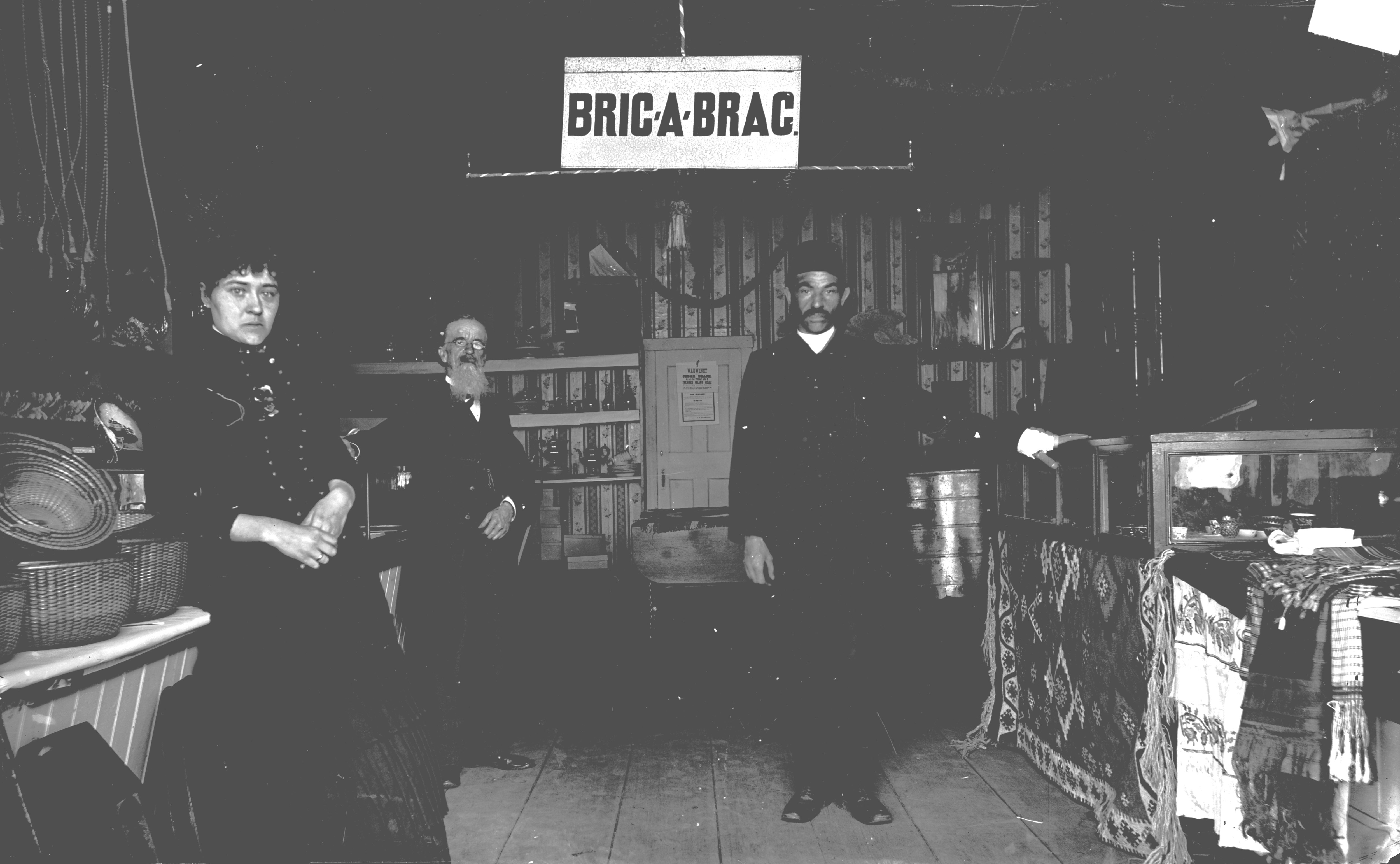 Original description from Flickr: "Interior of a Petticoat Row shop, with three shop keepers standing below a large Bric-A-Brac sign. The shop offers general household goods. Note the Nantucket baskets on the left. c. 1880s In the early and middle years of the 19th century, the preponderance of women merchants, selling everything from daily necessities to exotic goods, gave Centre Street the nickname "Petticoat Row." Generally, in the 19th century, women's roles became increasingly confined to the home as the shortage of male labor was overcome. But on Nantucket, whaling husbands were away for long stretches— as long as five years—and the dangers of whaling often left women widows. The Quaker influence, which valued competence of all sorts in women, and hard work and thrift in everyone, was crucial as well."